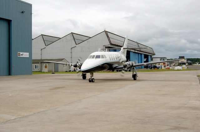 G NFLC Taxying to its final resting place sized